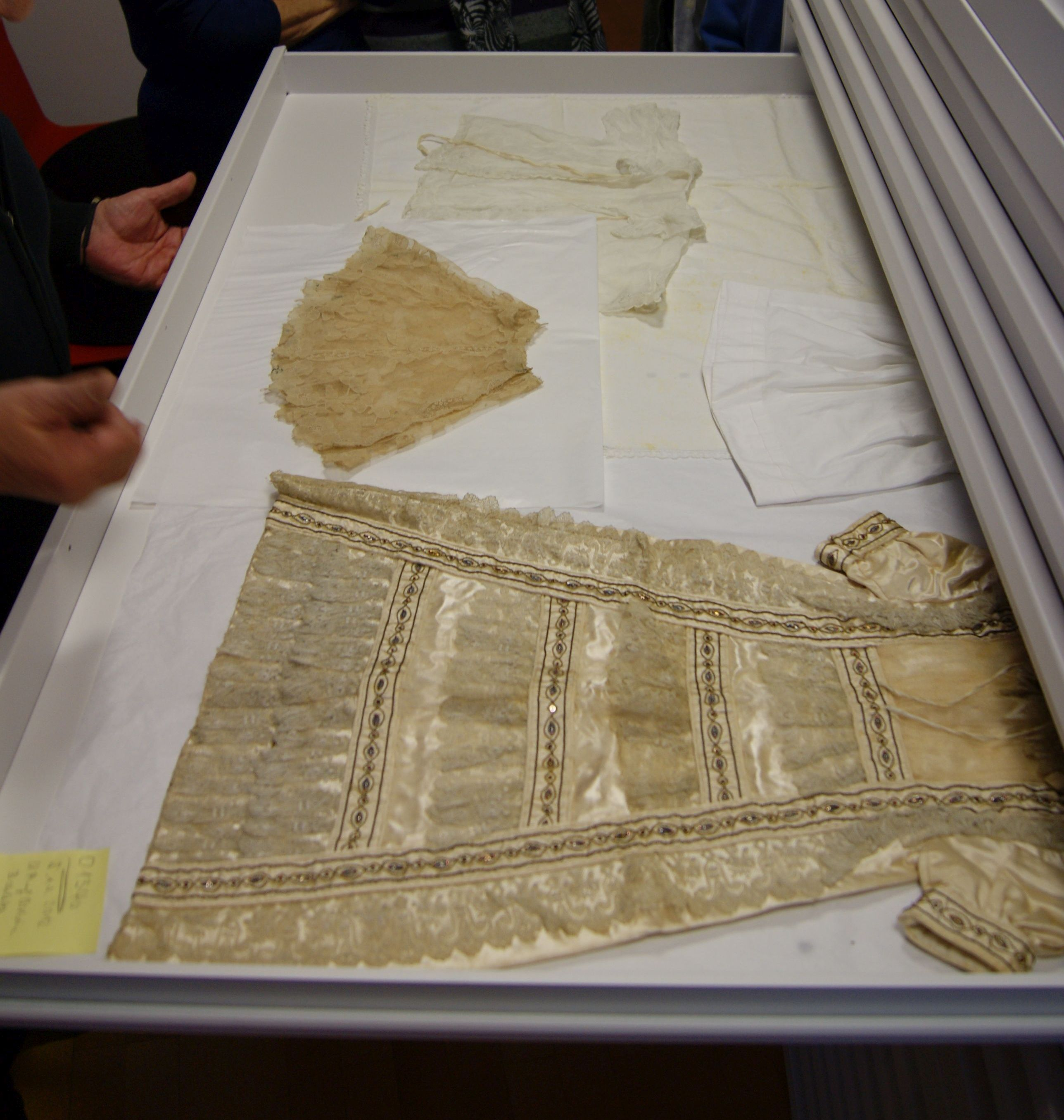 Textile patterns-archive in Dornbirn, Vorarlberg, Austria. Children dress.